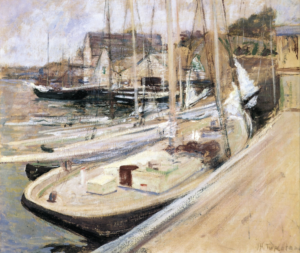 "Fishing Boats at Gloucester," oil on canvas, by the American artist John Twachtman. Courtesy of the Smithsonian American Art Museum.